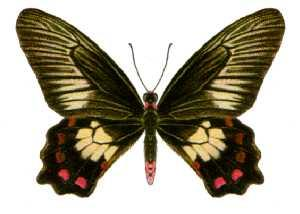 identifying features of Australian butterfly species wing pattern